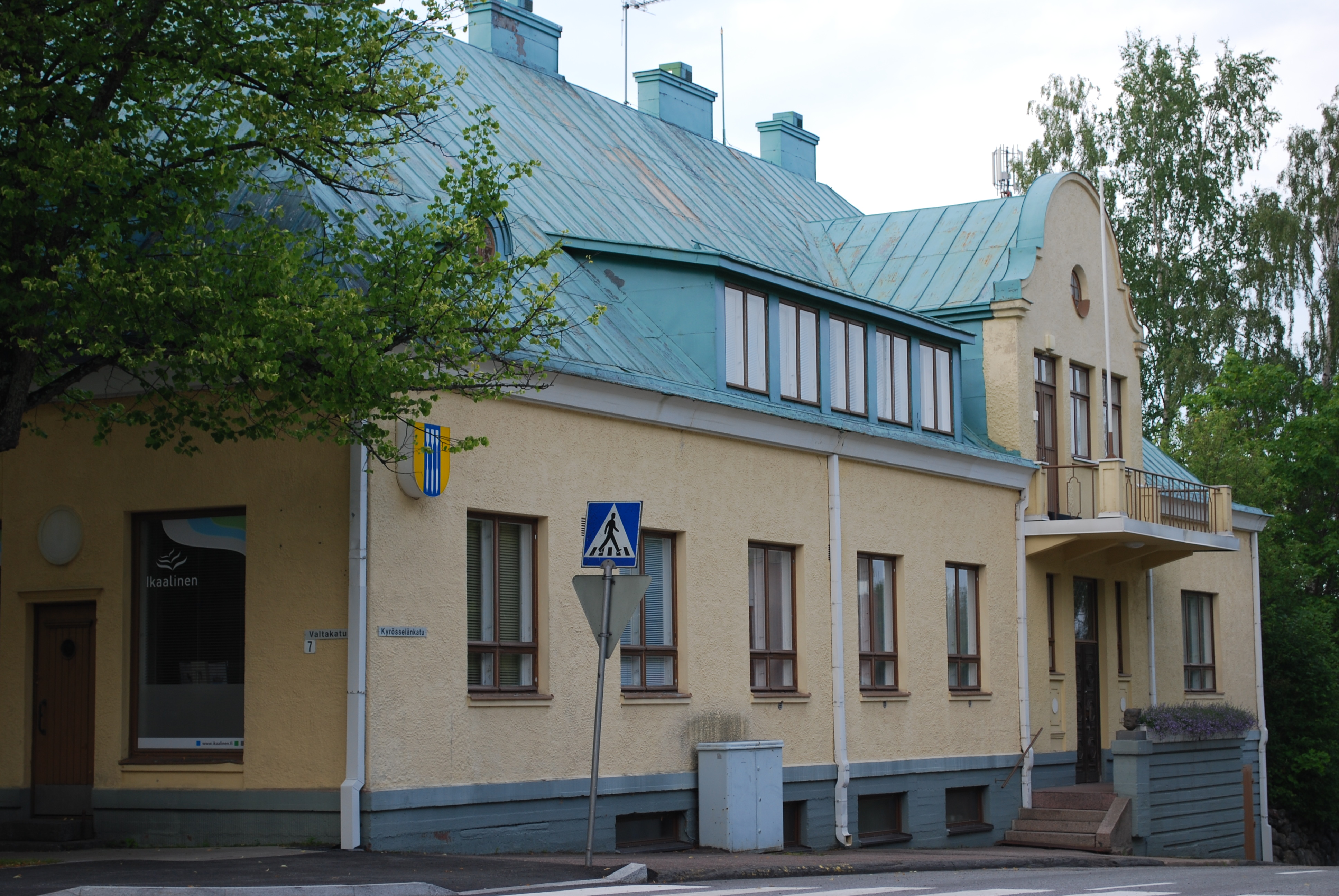 Town hall of Ikaalinen also known as the New Pharmacy building. Building was completed 1930